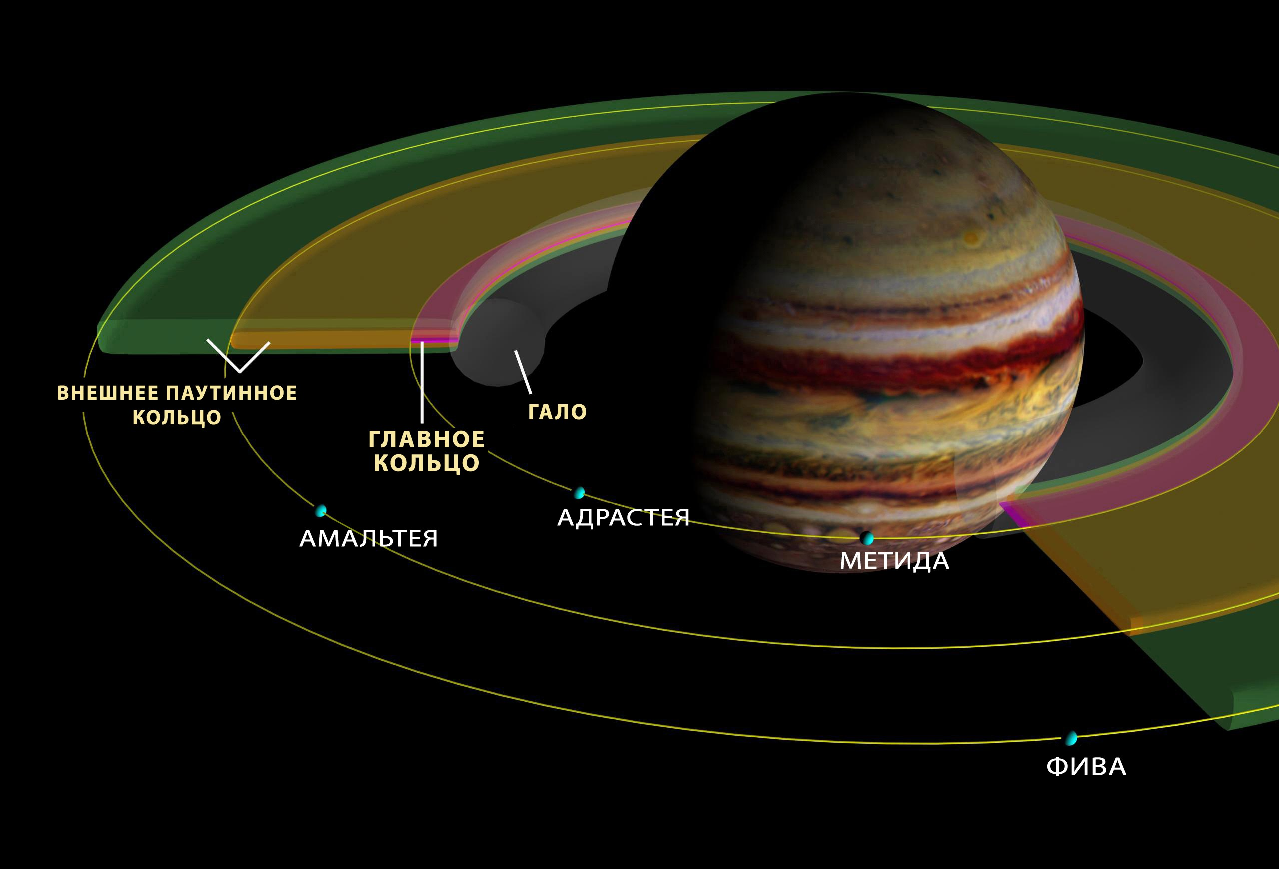 A schema of Jupiter's ring system showing the four main components.